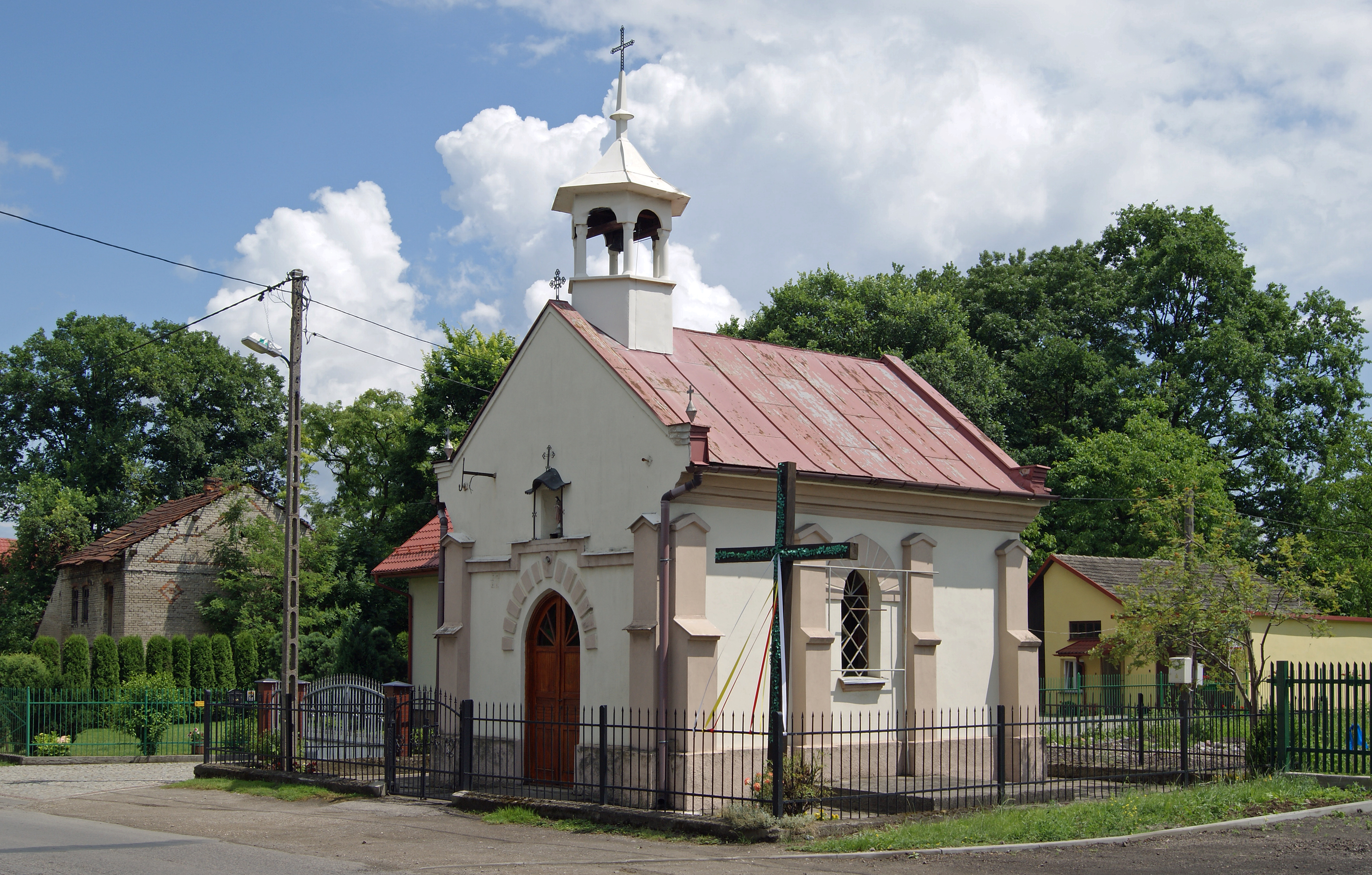 Sacred Heart of Jesus Chapel, 52 Lubocka street, Krakow, Poland